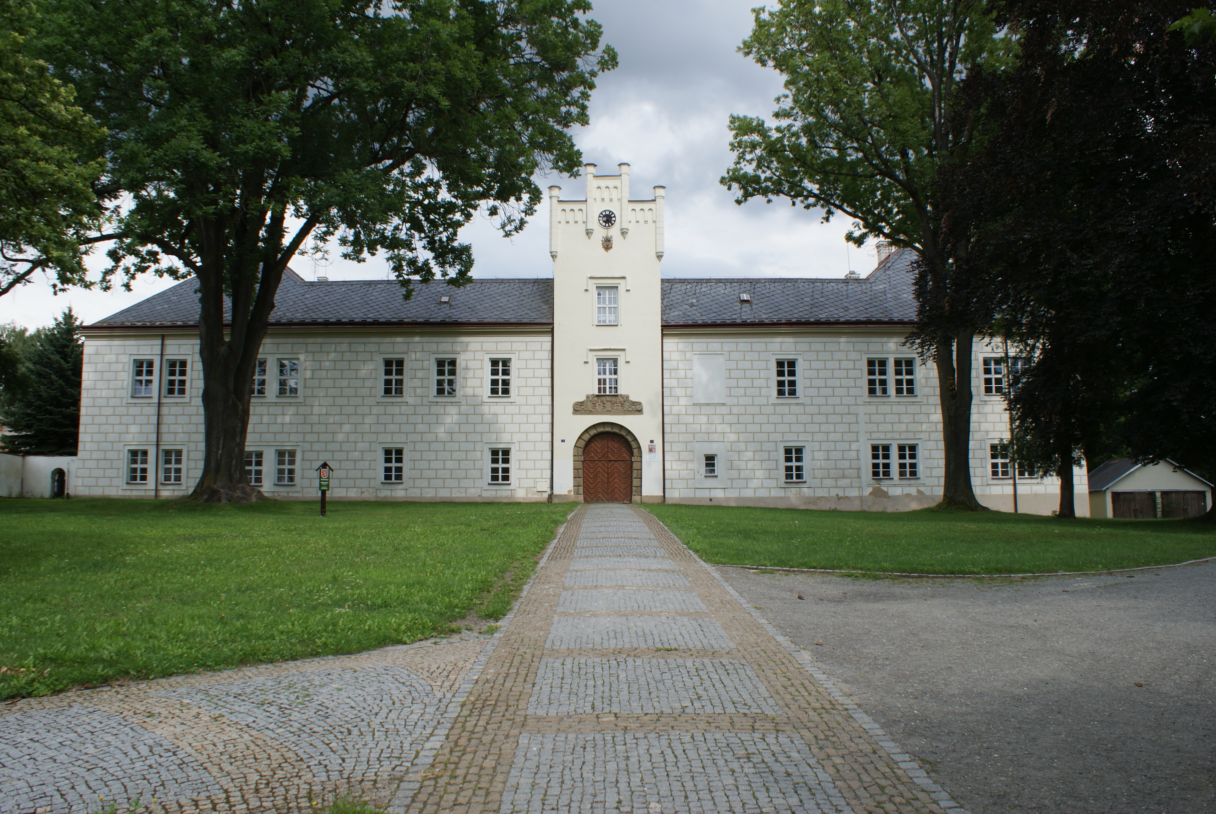 Spálené Poříčí, a town in Plzeň-jih district, Czech Republic, the castle.